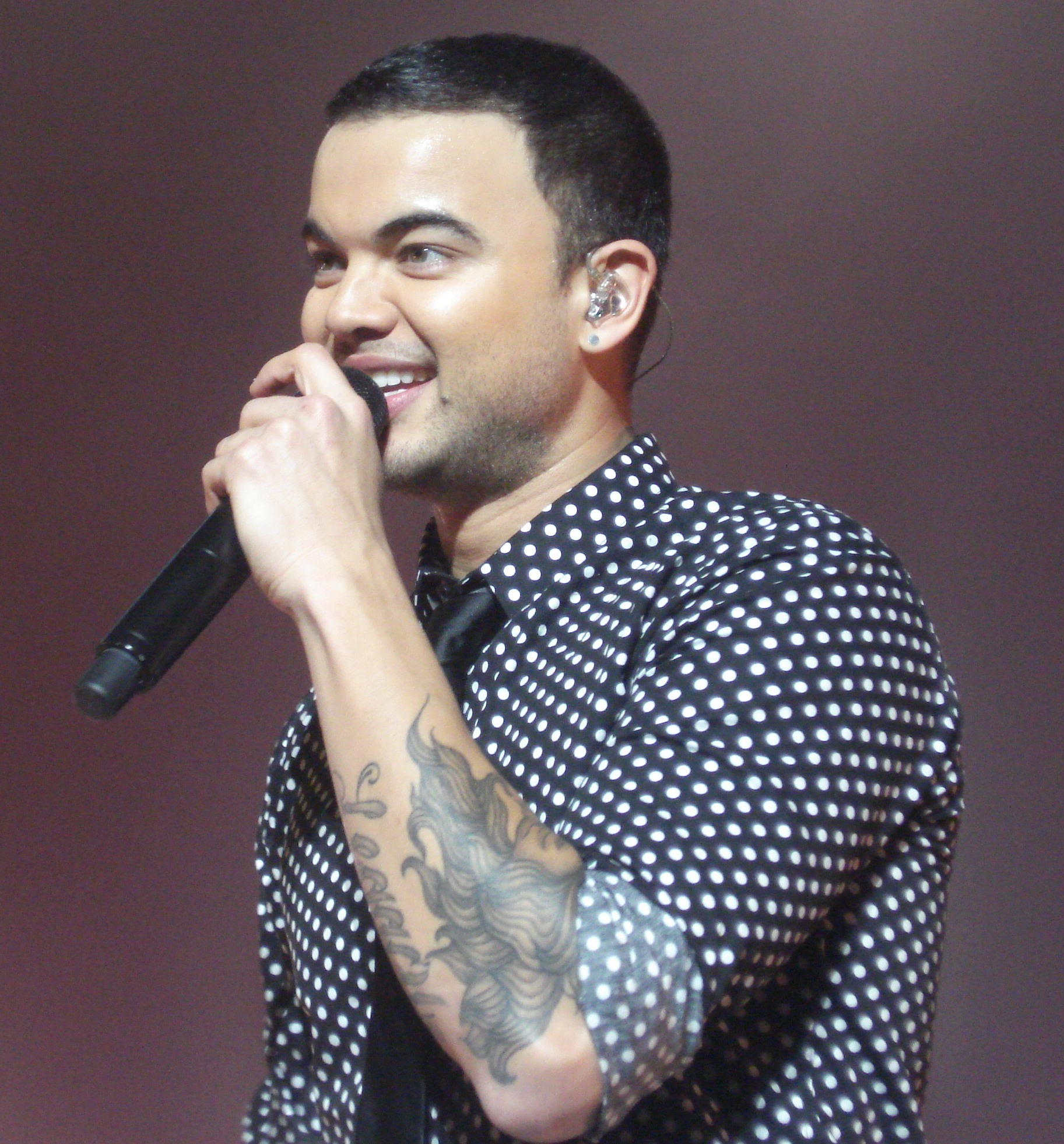 Guy Sebastian performing on his Armageddon tour at Jupiter's Casino - Gold Coast